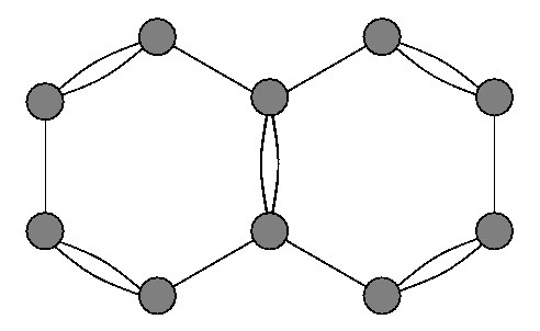 J.M. Harrison